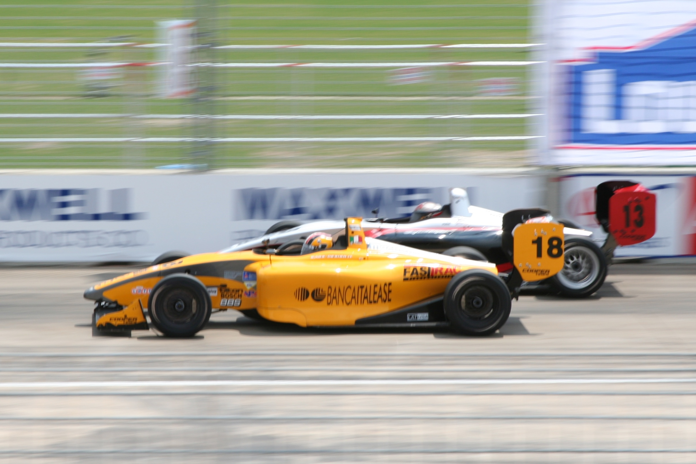 Atlantic Championship cars racing in Houston